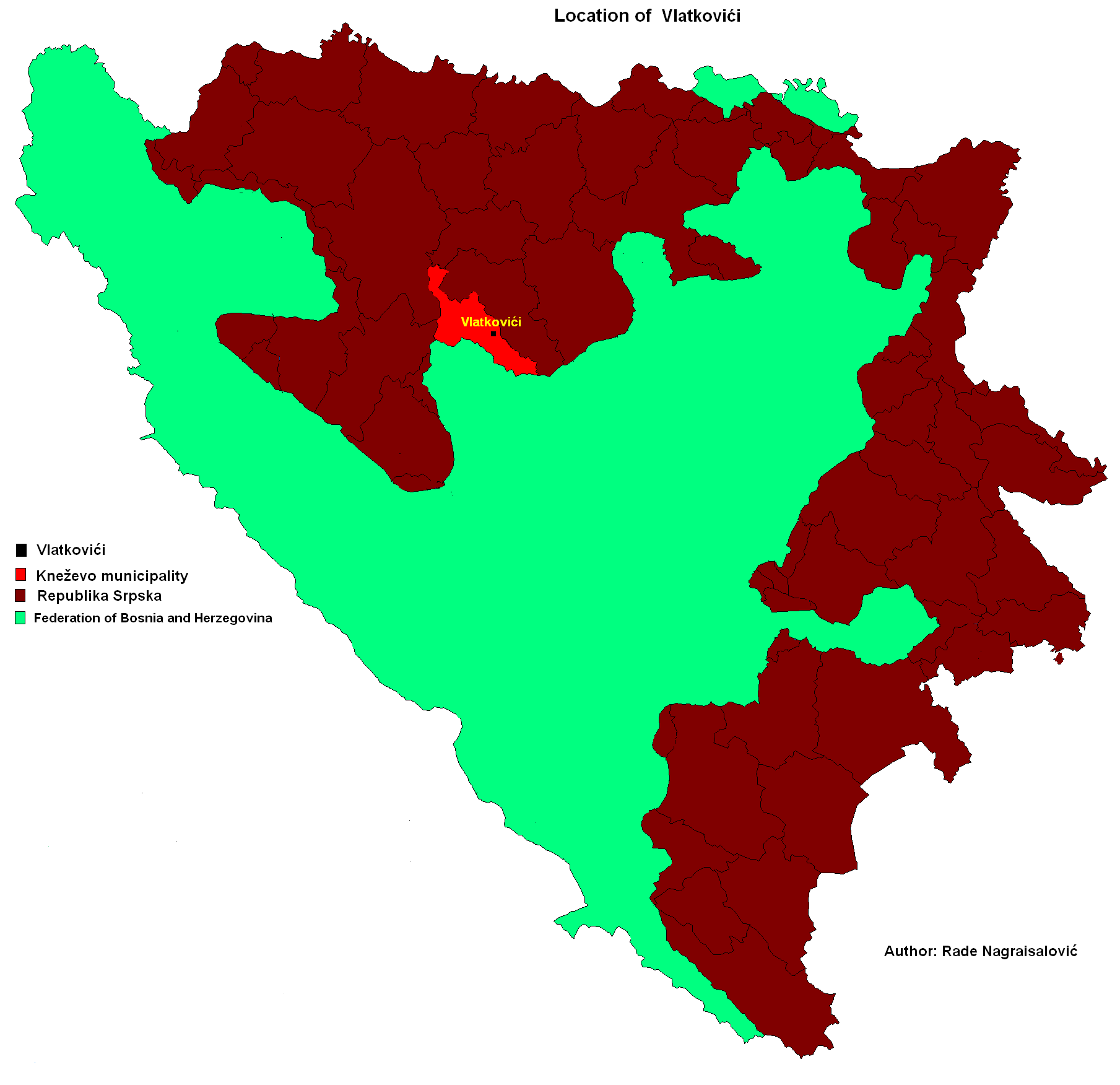 Location_of_Vlatkovći.